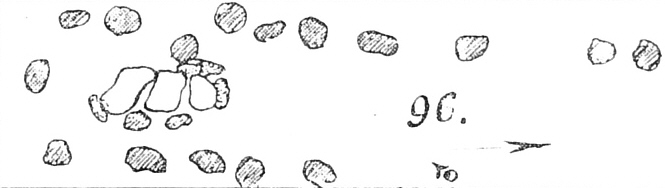 Outline of the dolmen Mehmke 2, Saxony-Anhalt